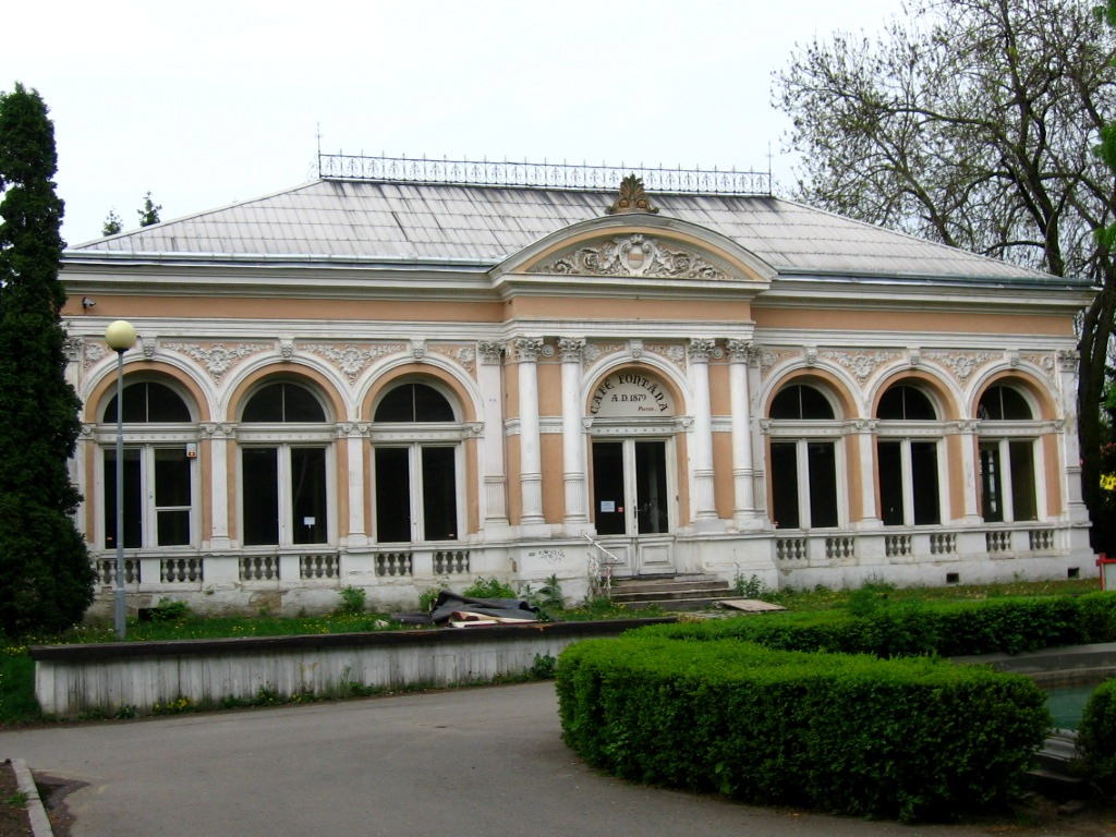 The restaurant pavilion in Olomouc, Czech Republic